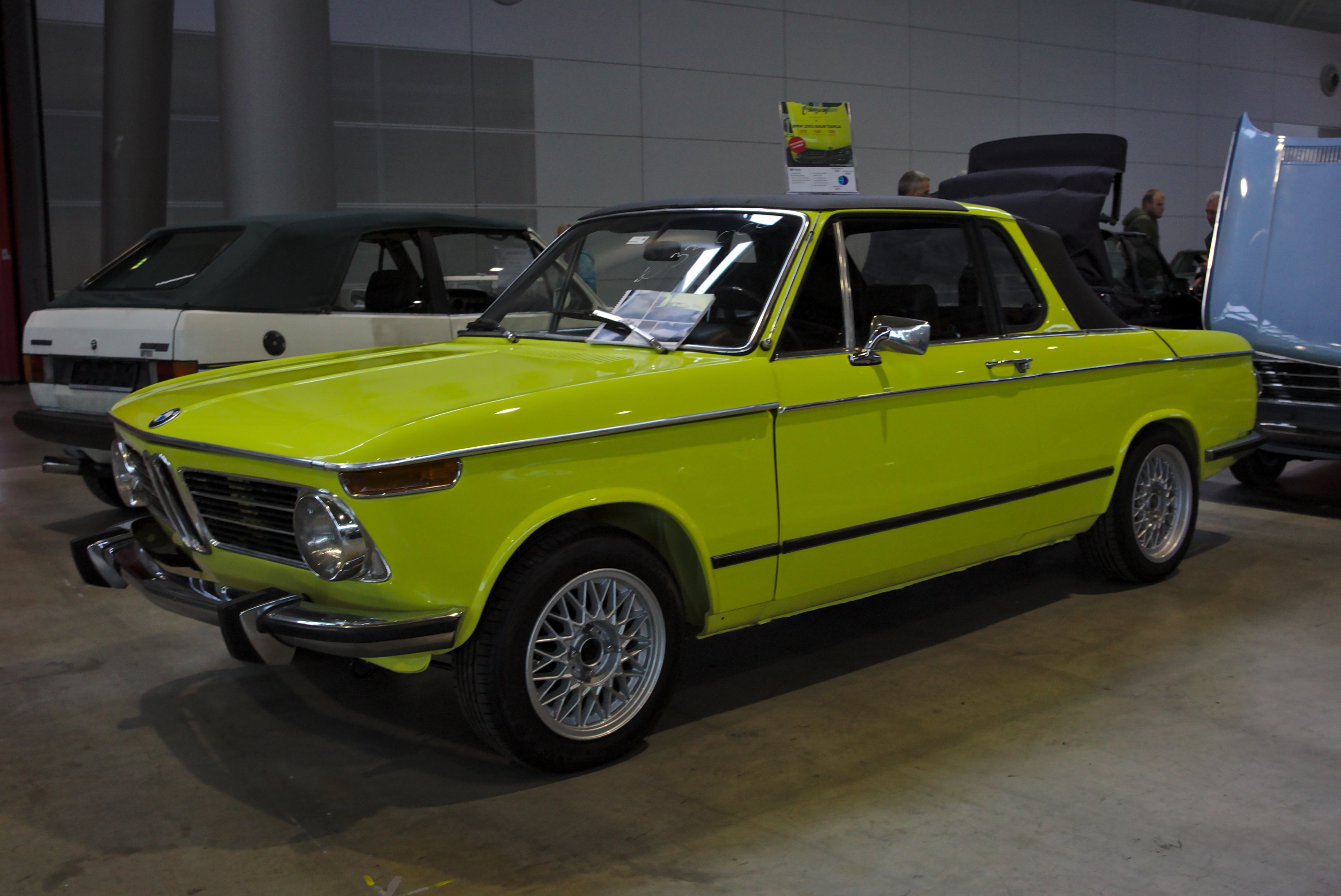 BMW 2002 Baur Targa at Retro Classics 2018